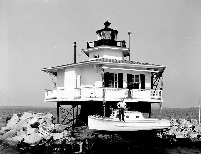 Undated photograph of Choptank River Light from United States Coast Guard website (original here) converted to PNG format